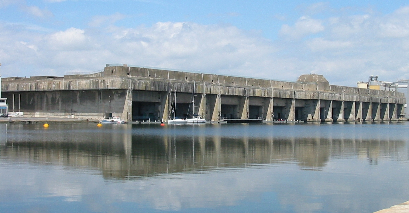 Submarine base of Saint-Nazaire. It holds today a museum and some commercial activities.